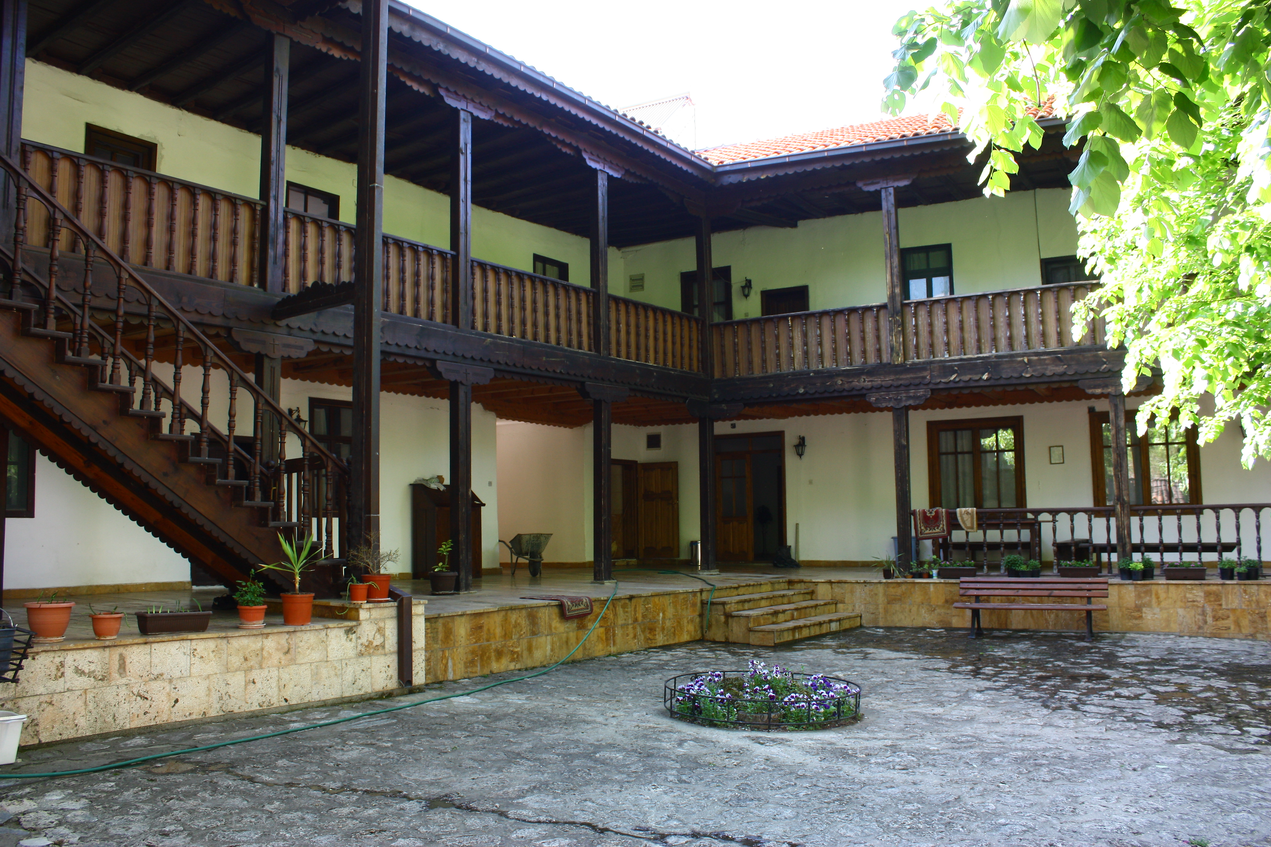 Matka Monastery, Macedonia